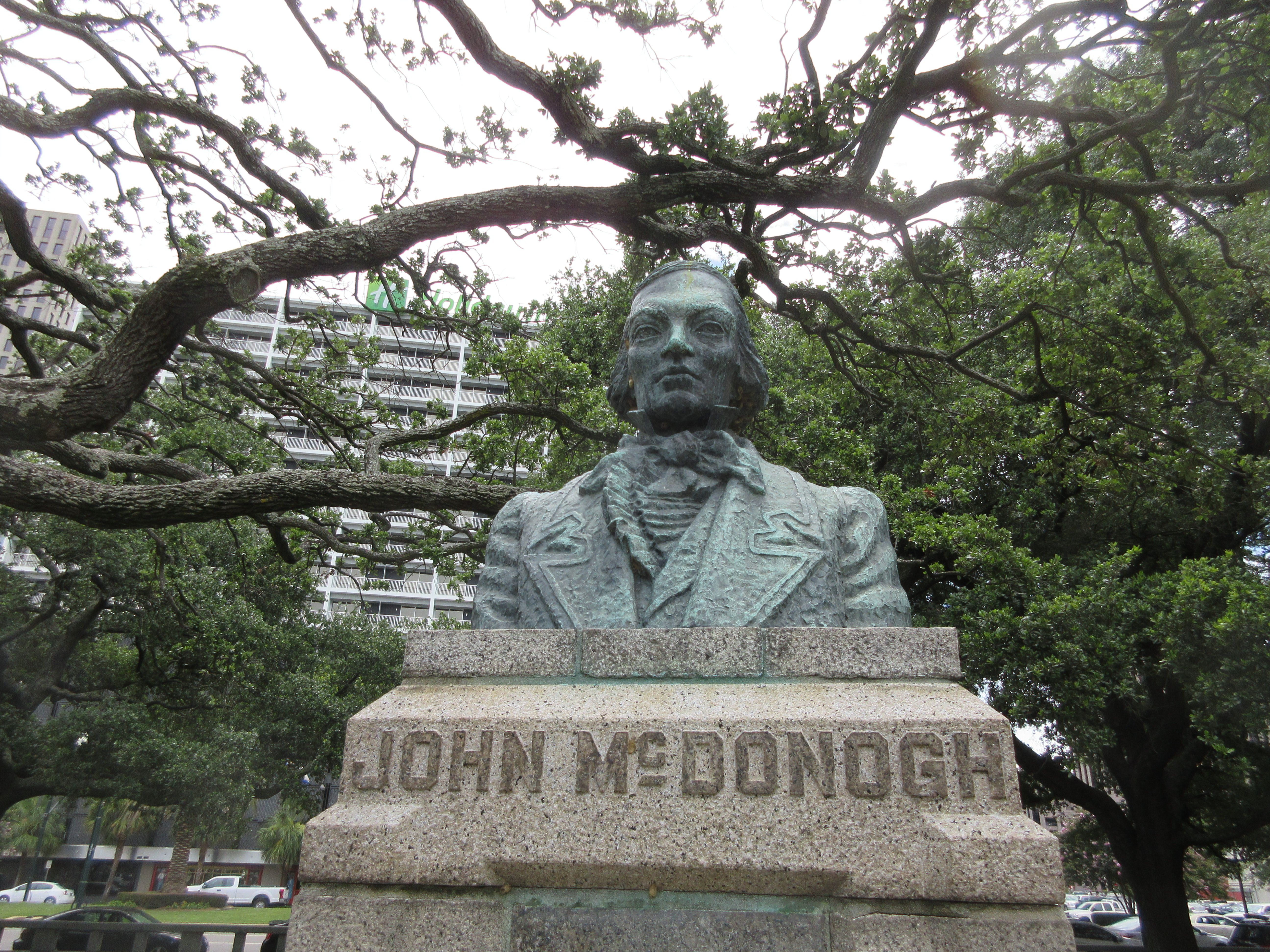 Duncan Plaza, New Orleans, June 2017. 1930s Federal Art Project bust of John McDonogh, public school philanthropist. Photo by Infrogmation of New Orleans, June 2017. Free reuse with author attribution in accordance with any of the licenses listed by the author/photographer. Reuse without photo attribution is a violation of copyright.